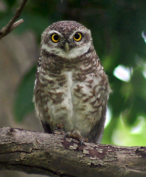 Spotted Owlet Athene brama in Kolkata, West Bengal, India.